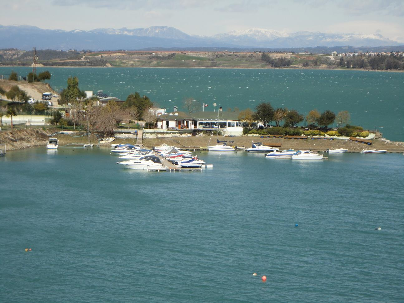 Adana Sailing Club